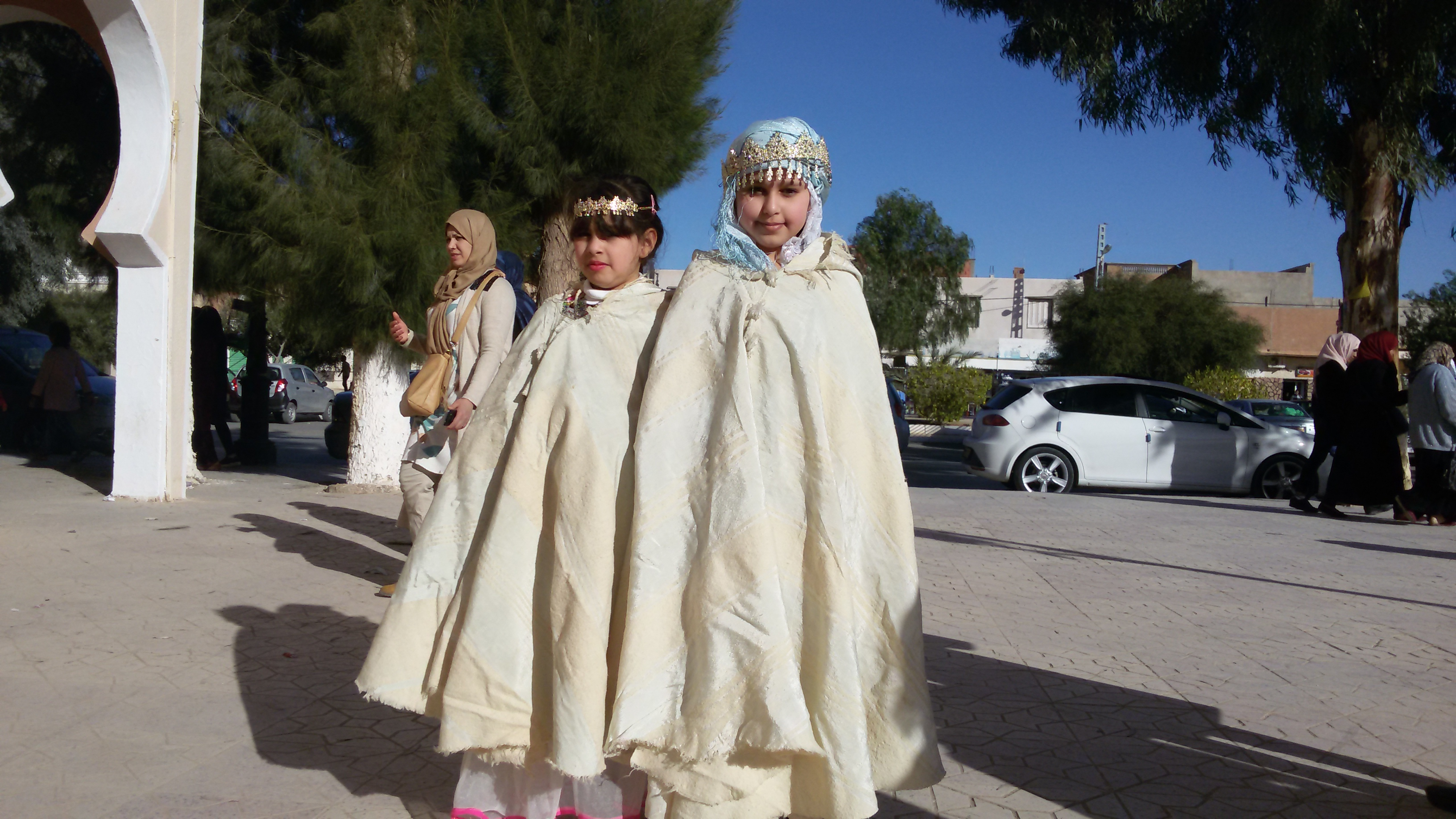 Vetement traditionel laghouat